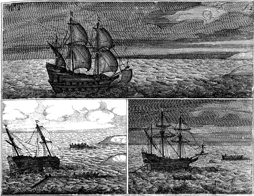 This is an image of Plate 1 from the 1647 Dutch book Ongeluckige voyagie, van't schip Batavia ("Unlucky voyage of the ship Batavia"). In the original work this plate followed Page 2.